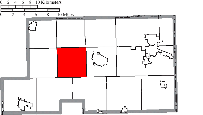 Map of the municipal and township boundaries of Mahoning County, Ohio, United States, as of the 2000 census, with the location of Ellsworth Township highlighted. Township borders are shown only in unincorporated areas in order to differentiate incorporated and unincorporated areas more clearly.